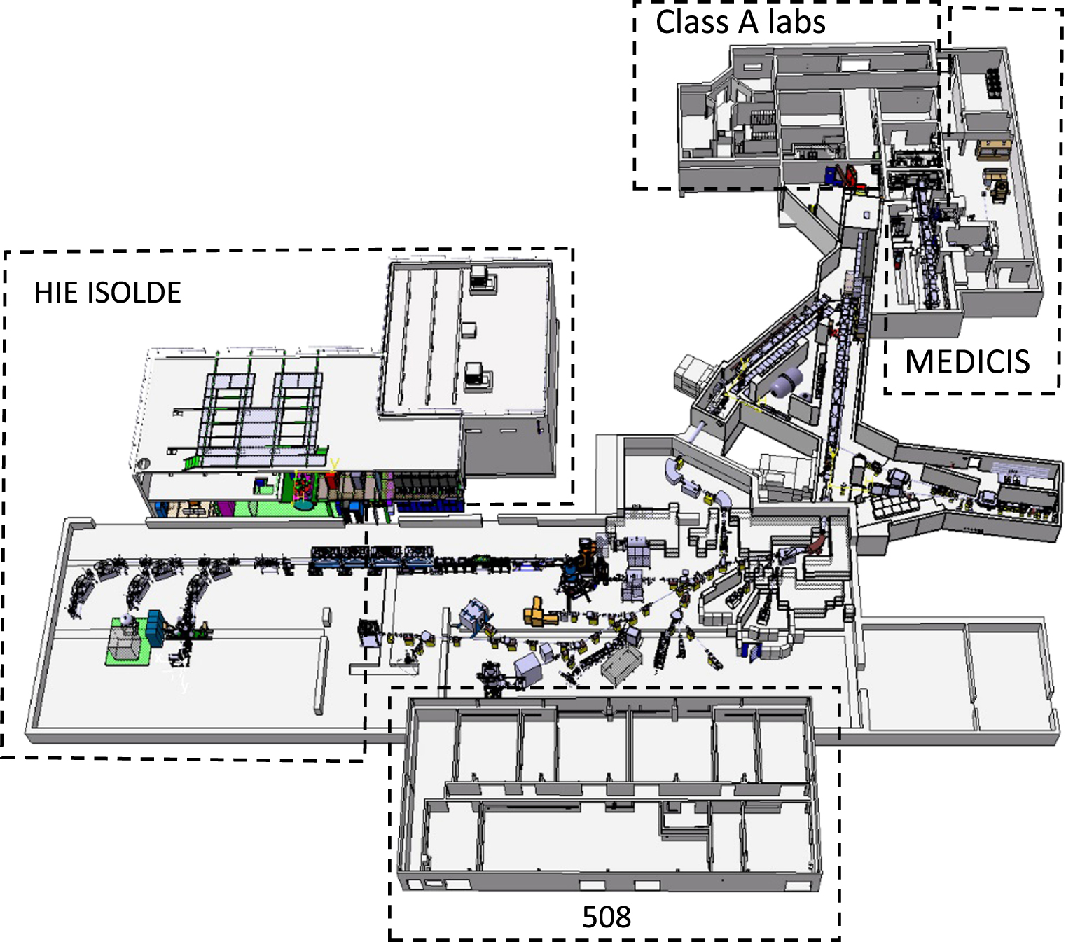 A model of ISOLDE facility from 2017 as appeared in